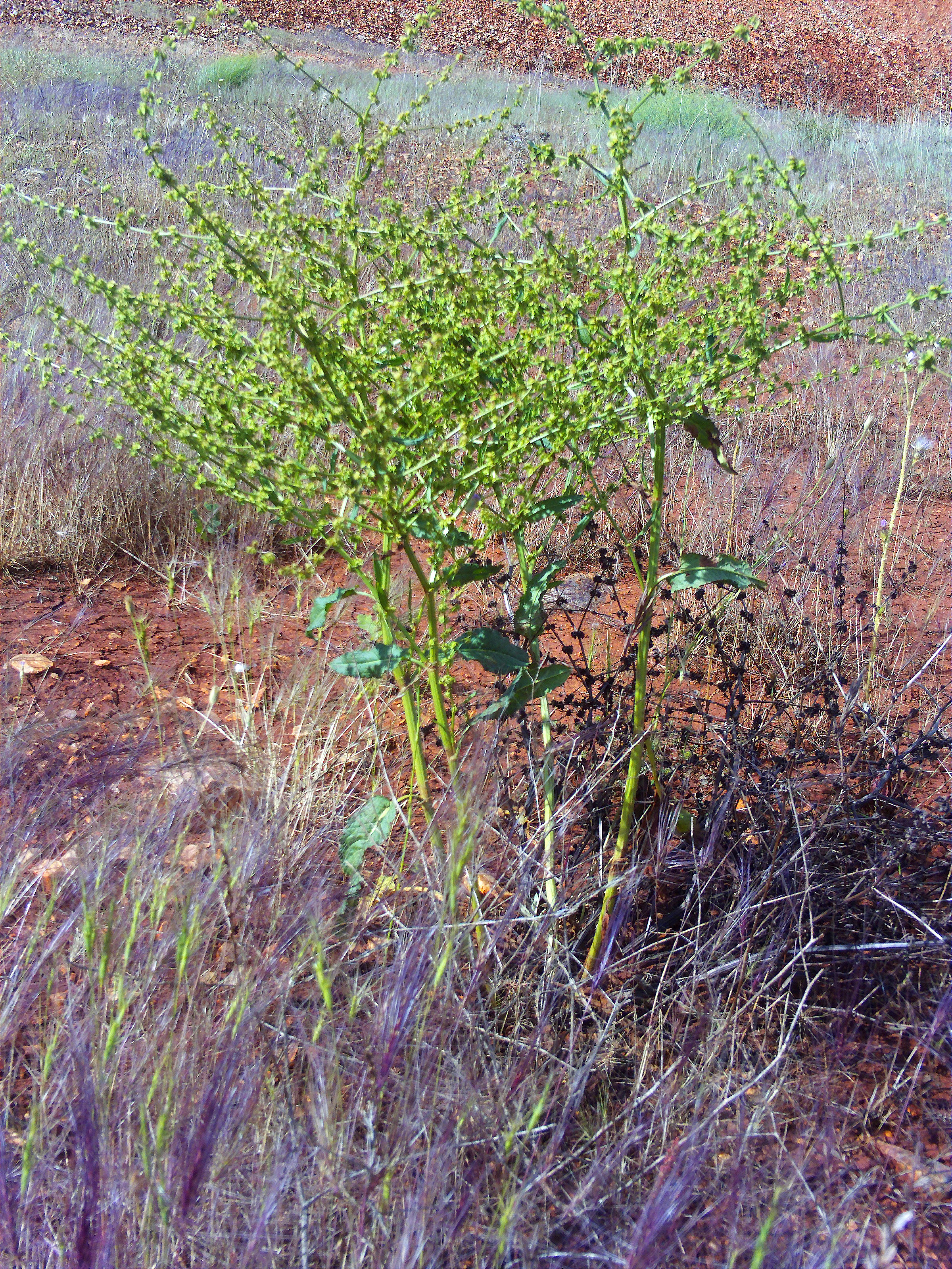 Rumex pulcher habit Campo de Calatrava, Spain